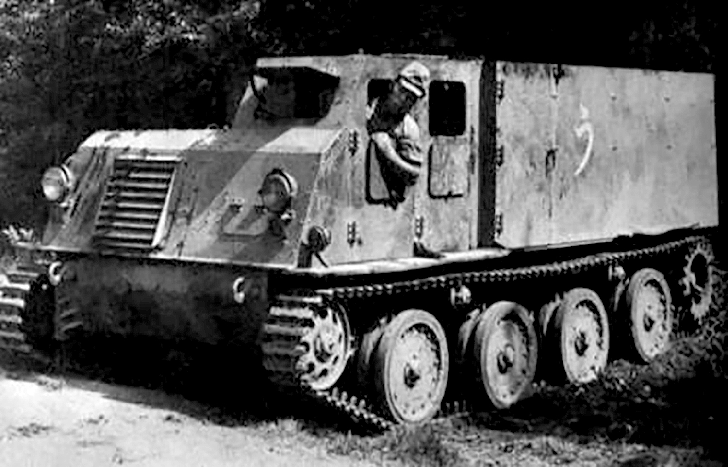 A Type 1 Armored Car Ho-Ki (一式装甲兵車 ホキ) of the Imperial Japanese Army, Manchuria 1944